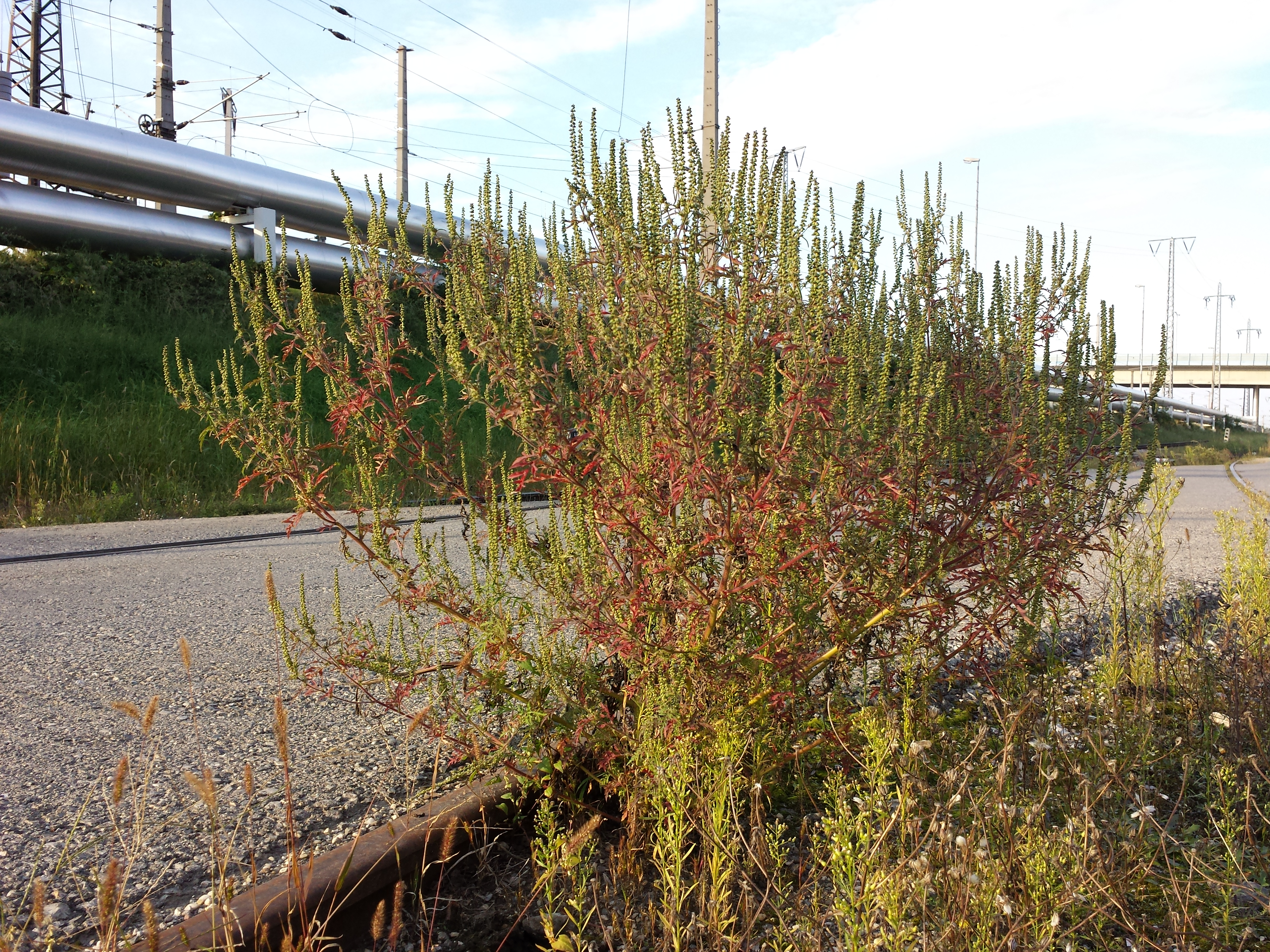 Habitus Taxonym: Ambrosia artemisiifolia ss Fischer et al. EfÖLS 2008 ISBN 978-3-85474-187-9 Location: Floridsdorf rail station, Vienna-Floridsdorf - ca. 160 m a.s.l. Habitat: ballast